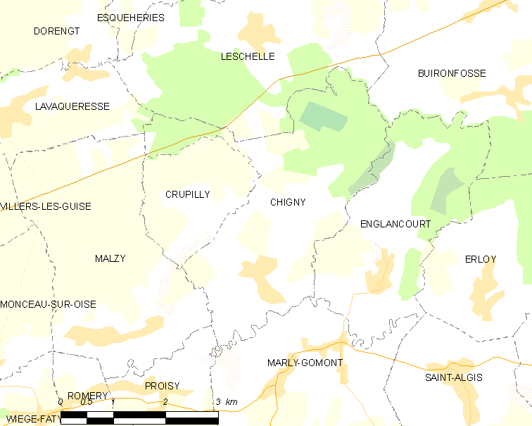 Map of French commune: Chigny Map commune FR insee code 02188.png